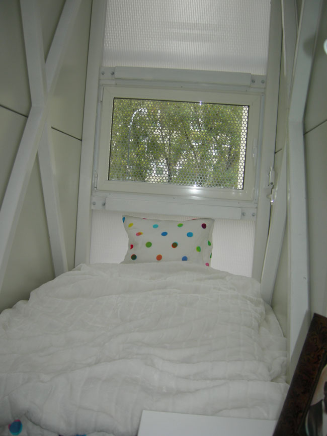 The Keret House artistic installation has been designed by polish architect Jakub Szczęsny from an ida of the israelian born writer and cineast Etgar Keret.